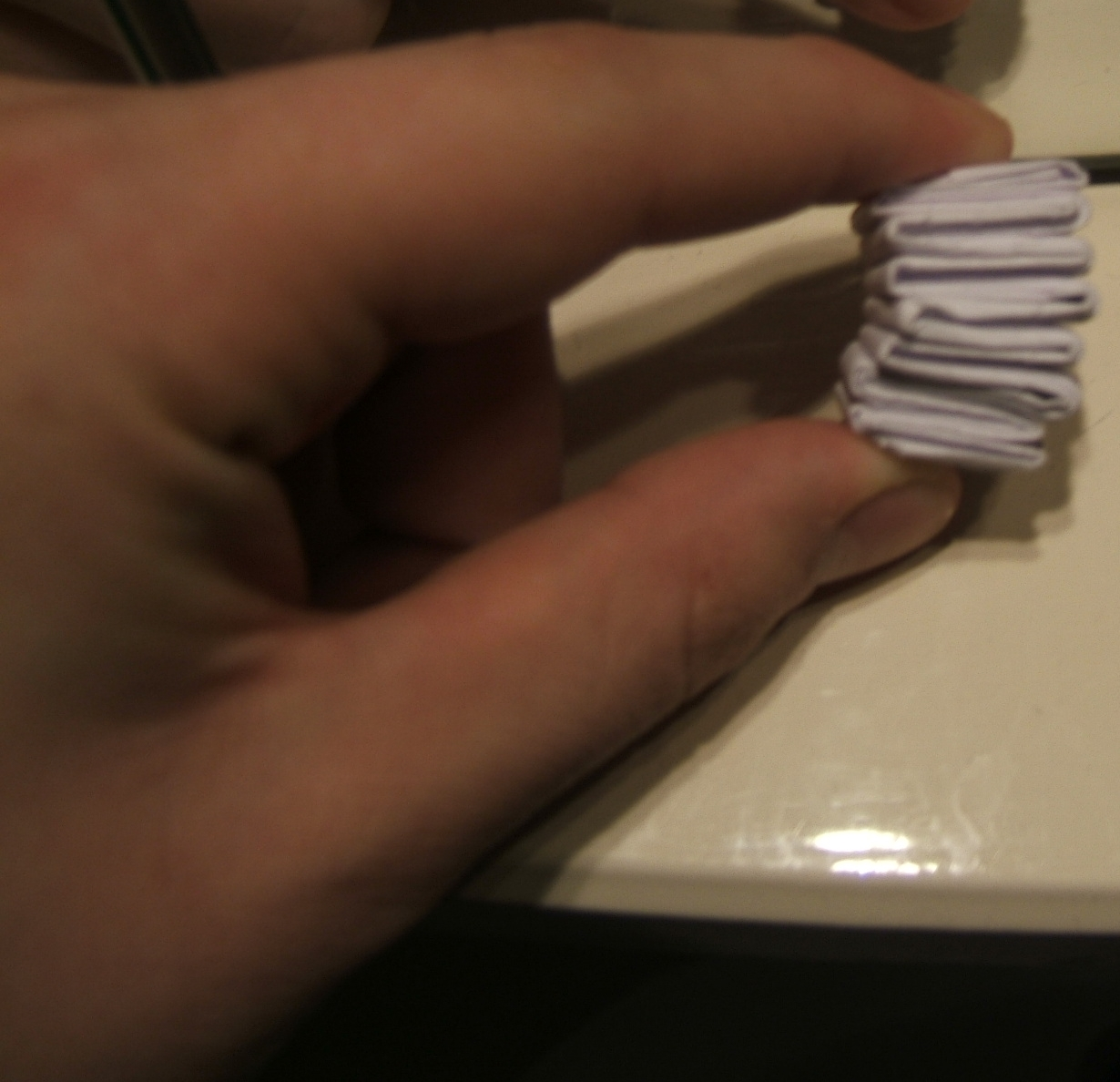 Din A4 paper as 256 layers